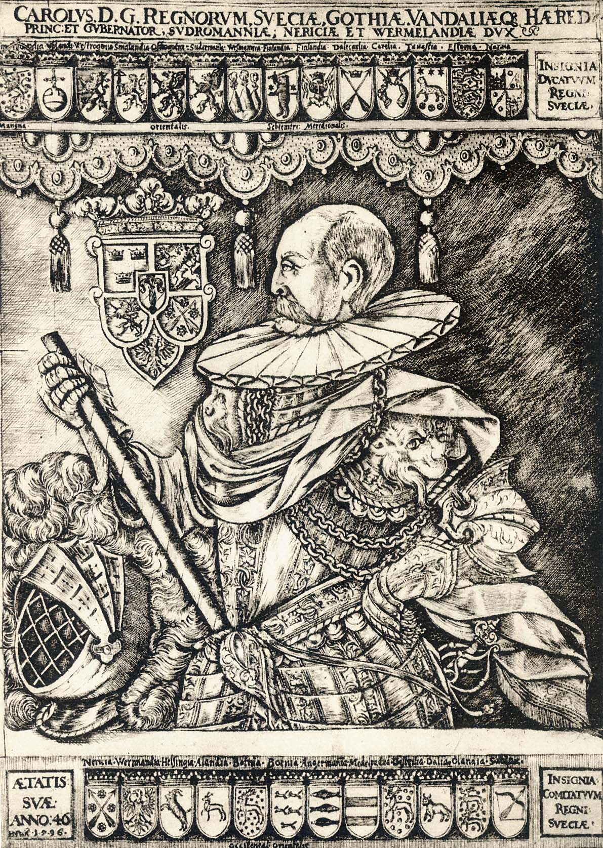 King Carl IX of Sweden as Duke Carl, as released by image scanner Ristesson